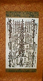 Nichiren Shoshu Gohonzon